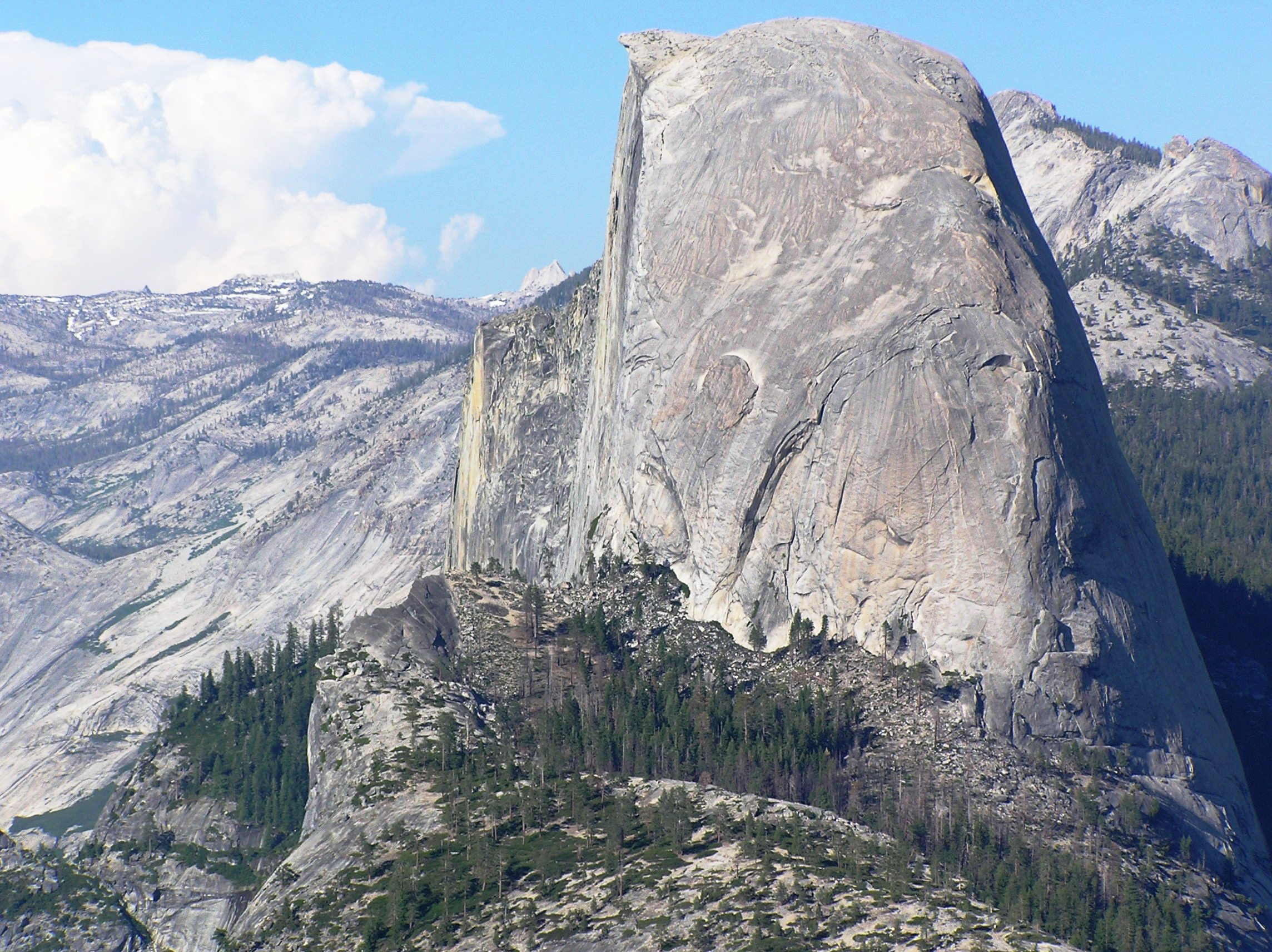 Half Dome from Glacier Point. Yosemite National Park, California, USA.